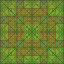 Binary pattern with few filters. Created by Black Phoenix (Phoenix Black on Wikipedia)